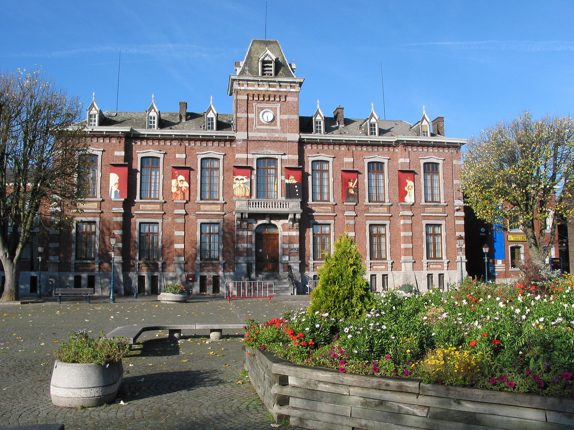 Chapelle-lez-Herlaimont (Belgium), the town hall (1892).